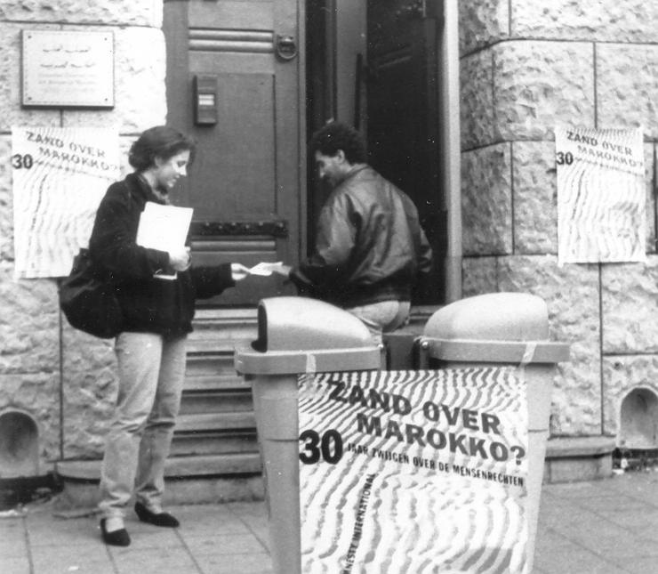 Amnesty in action 1990, Rotterdam March 1990, The Netherlands.